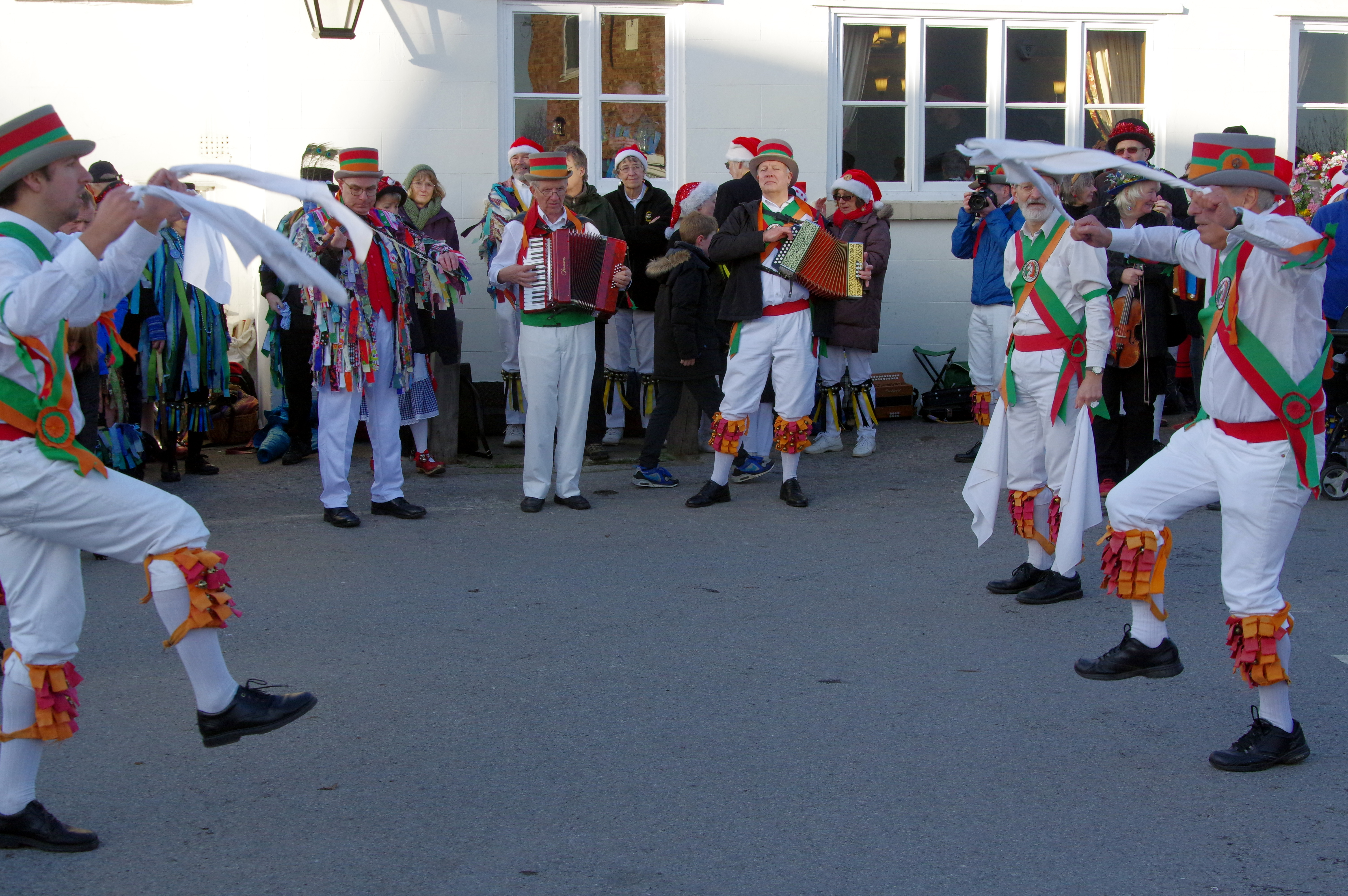 20.12.15 Mobberley Morris Dancing